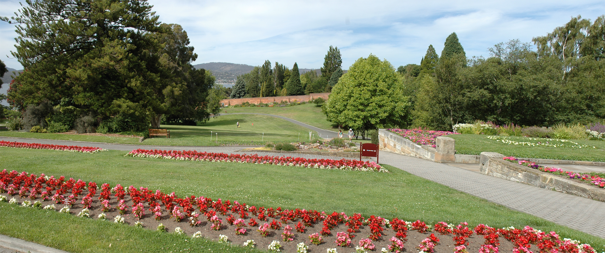 Hobart Botanical Gardens - inside - one of many sections.